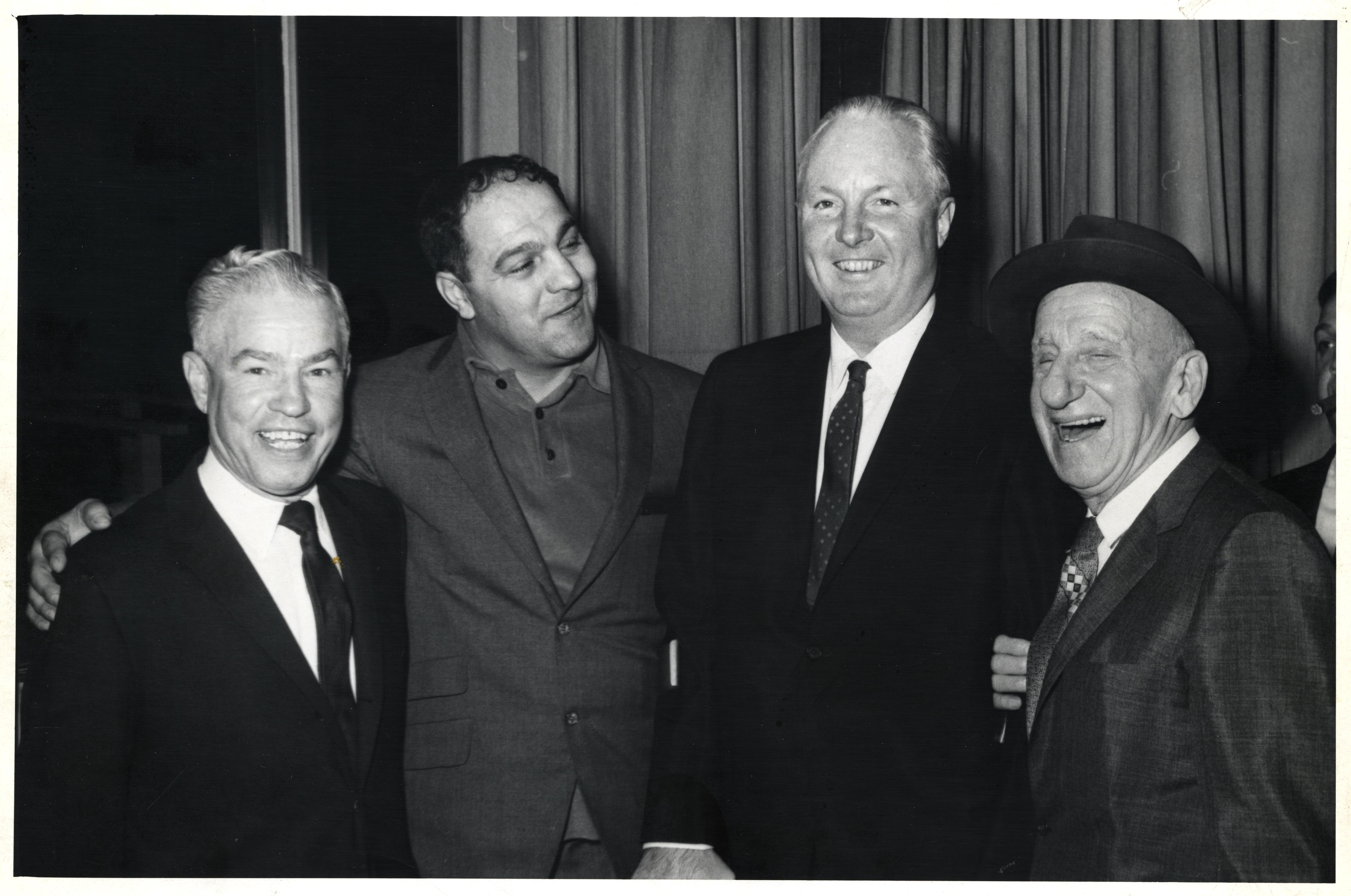 Title: Unidentified man, boxer Rocky Marciano, Mayor John F. Collins, and singer Jimmy Durante Creator: Clow, Frederick G. S. Date: circa 1968 Source: Mayor John F. Collins records, Collection #0244.001 File name: 244001_0198 Rights: Copyright City of Boston Citation: Mayor John F. Collins records, Collection #0244.001, City of Boston Archives, Boston